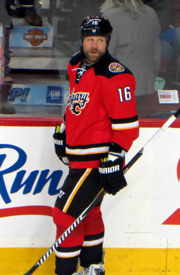 Calgary Flames forward Brian McGrattan prior to a National Hockey League game against the New York Rangers.